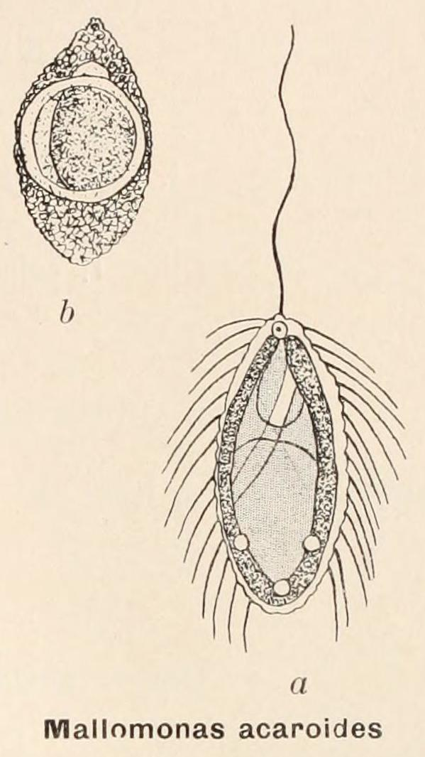 Title: Album général des diatomées marines, d'eau douce ou fossiles : album représentant tous les genres de diatomées et leurs principales espèces Year: (190-?) ((190s) Authors: Coupin, Henri, b. 1868 Subjects: Diatoms Publisher: Paris : H. Coupin Text Appearing Before Image: ALG^. PL 2 Text Appearing After Image: Phaeococcus démenti I. CHRYSOMONADINE^ Chromulinnccœ